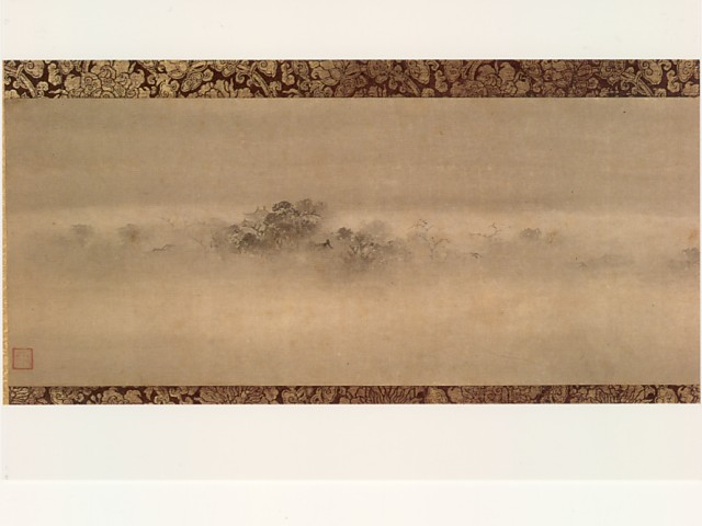 Evening bell from mist-shrouded temple (紙本墨画煙寺晩鐘図, shihon bokuga enji banshōzu). The scene depicted is one of the Eight Selected Scenes of Xiaoxiang. Hanging scroll. Ink on paper. Located at the Hatakeyama Memorial Museum of Fine Art, Tokyo. The scroll has been designated as National Treasure of Japan in the category paintings.